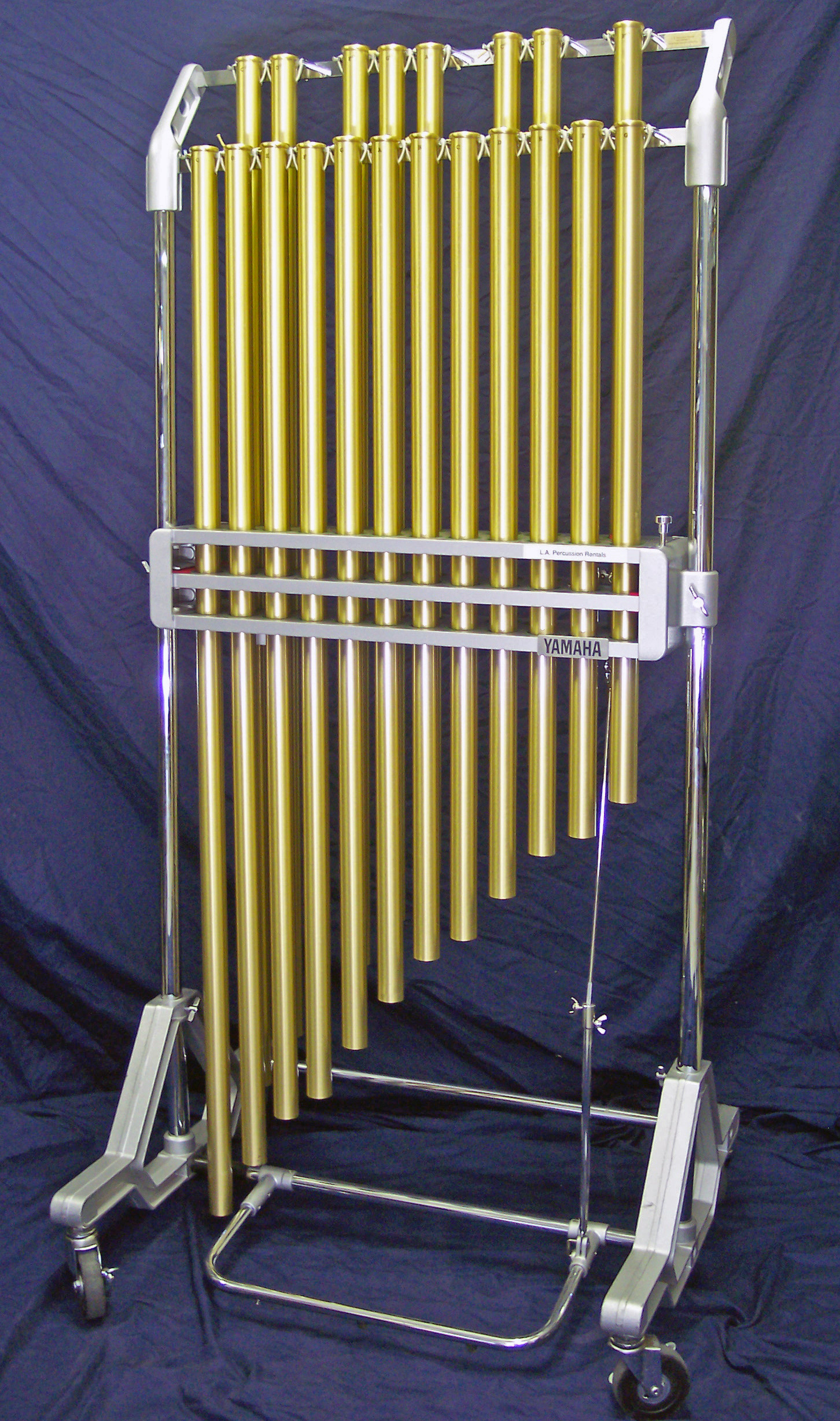 Yamaha Deagan chimes (from LA Percussion Rentals), range C4-G5 Other information See User:Xylosmygame for more information. Xylosmygame (talk) 17:19, 14 September 2012 (UTC)